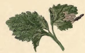 Stainton’s Natural History of the Tineina (1855–1873): Coleophora ochripennella sprig of Ballota nigra with a larva-case attached